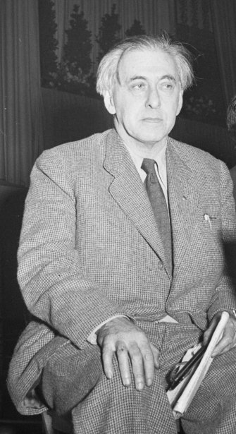 Ilya Grigoryevich Ehrenburg, Russian writer and journalist, at the meeting of the World Peace Council in December 1952 in the Vienna Konzerthaus.